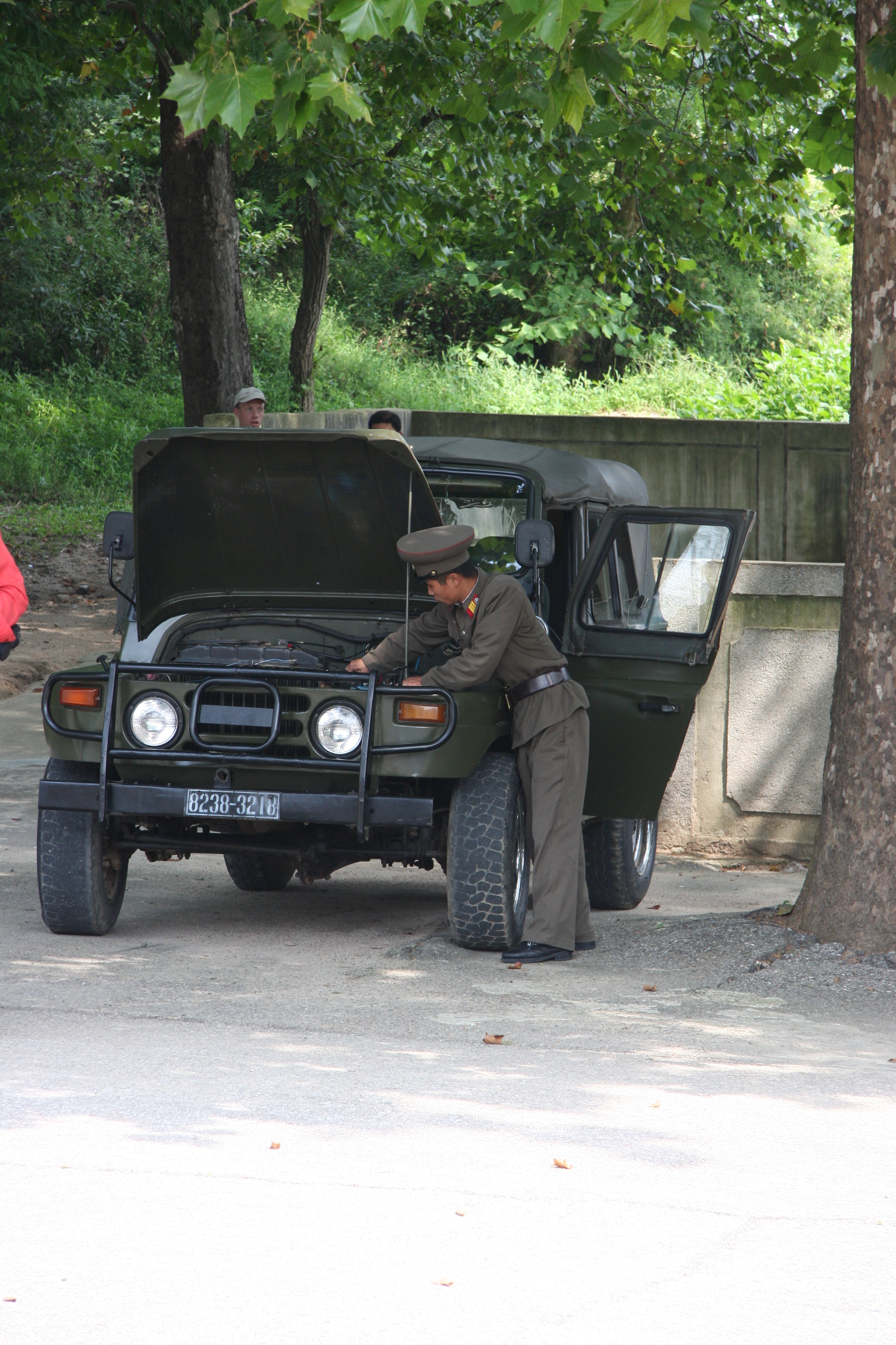 A North Korean military off road vehicle.